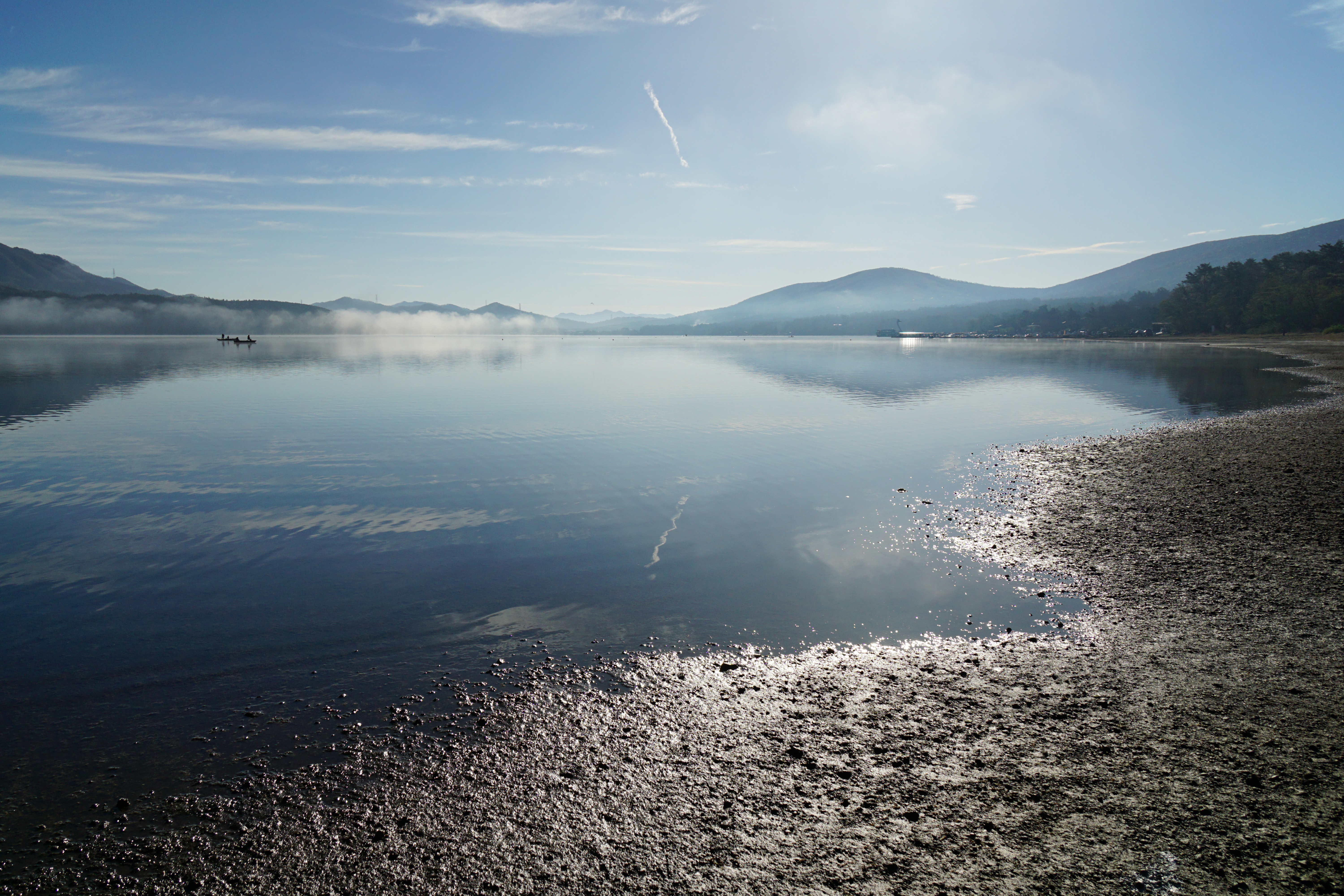 At Lake Yamanaka in Yamanakako, Yamanashi prefecture, Japan